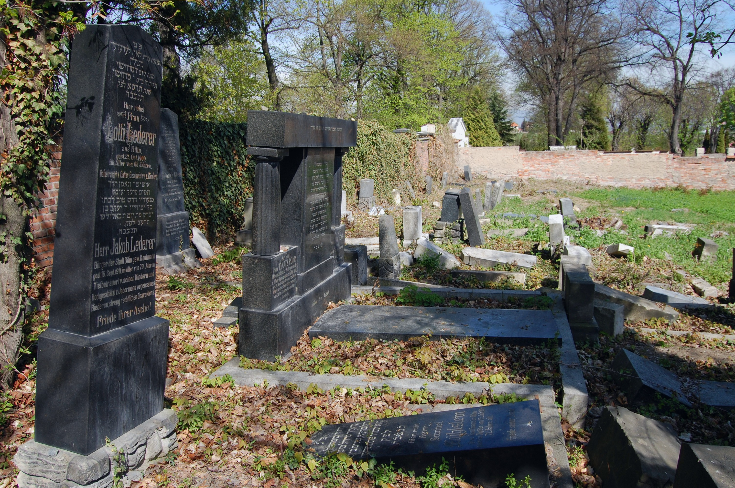 Jewish cemetery in Bílina, Czech Republic. Česky: Židovský hřbitov v Bílině